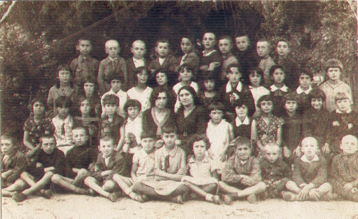 Polish (Jewish and Christian) schoolchildren with their teachers, Jedwabne, Poland. See POLIN, Museum of the History of Polish Jews: "Jewish and Polish students of the elementary school in Jedwabne, 1933 / photo: Jewish Historical Institute". See Jedwabne pogrom. According to Jan Gross, Neighbors: The Destruction of the Jewish Community in Jedwabne, Poland, 2001, the teachers' names are Szemerówna and Podróżnik. According to Anna Bikont, The Crime and the Silence, 2015, p. 246: "Elementary school class. Jedwabne, 1933. The school was attended by Polish and Jewish children. Meir Grajewski (later Meir Ronen), first row, third from right; his elder sister Fajga behind him in a polka-dot dress. In the back row, three boys who survived the war in hiding with Antonina and Aleksander Wyrzykowski: second from left, Szmul Wasersztejn; third, Mosze Olszewicz; fourth, Jankiel Kubrzański. Also in the photo: Butcher Nornberg’s daughter, in the second row, fourth from left. Meir Stryjakowski, grandson of Jedwabne rabbi Awigdor Białostocki, is standing in the back row second from right. The photo also shows children from the Zajdensztat, Zimny, Jedwabiński, and Kamionowicz families. (Courtesy of Meir Ronen)"